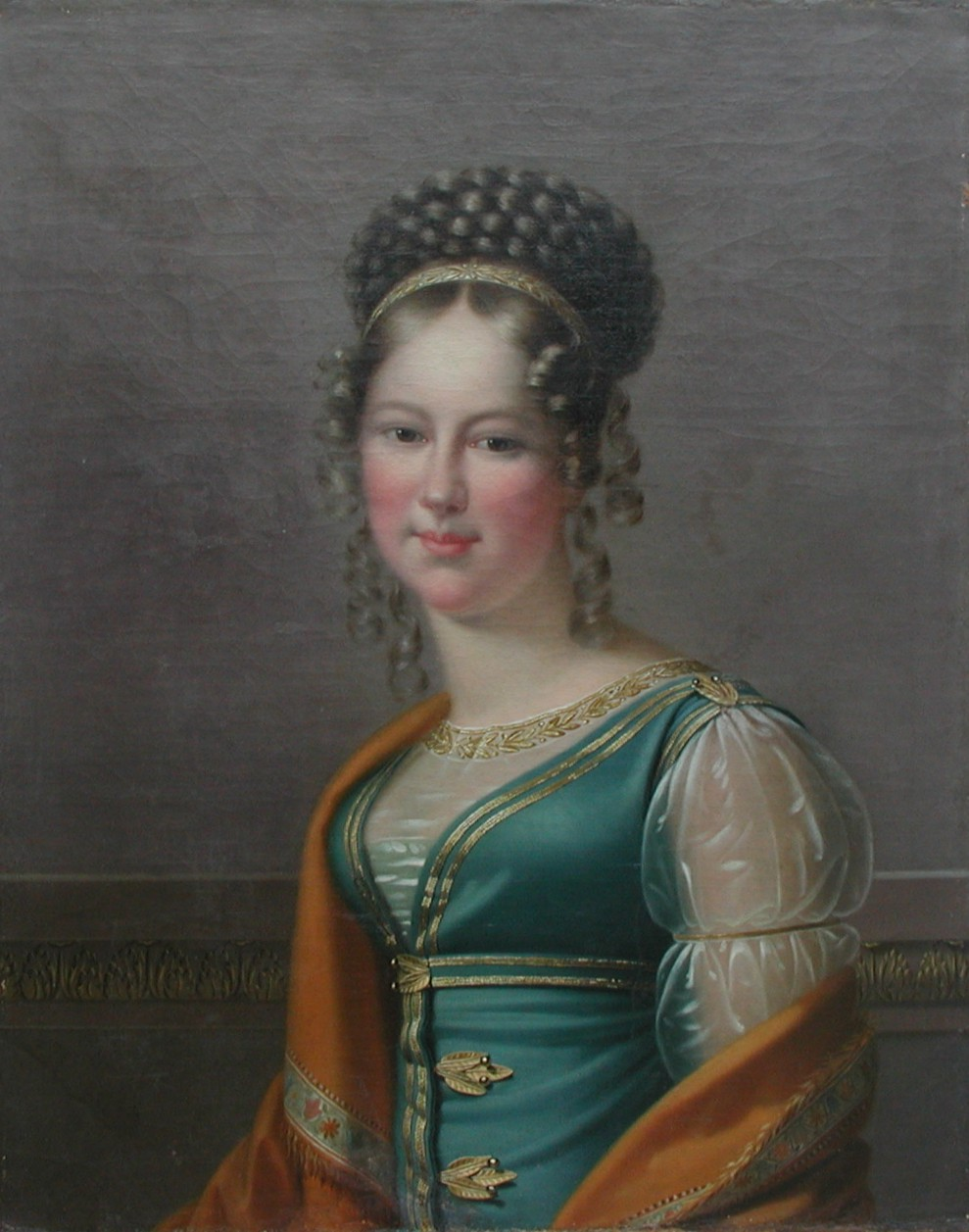 Portrait of Maria Antonia Koháry de Csábrág (1797–1862)